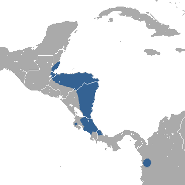 Alston's Woolly Mouse Opossum (Micoureus alstoni) range